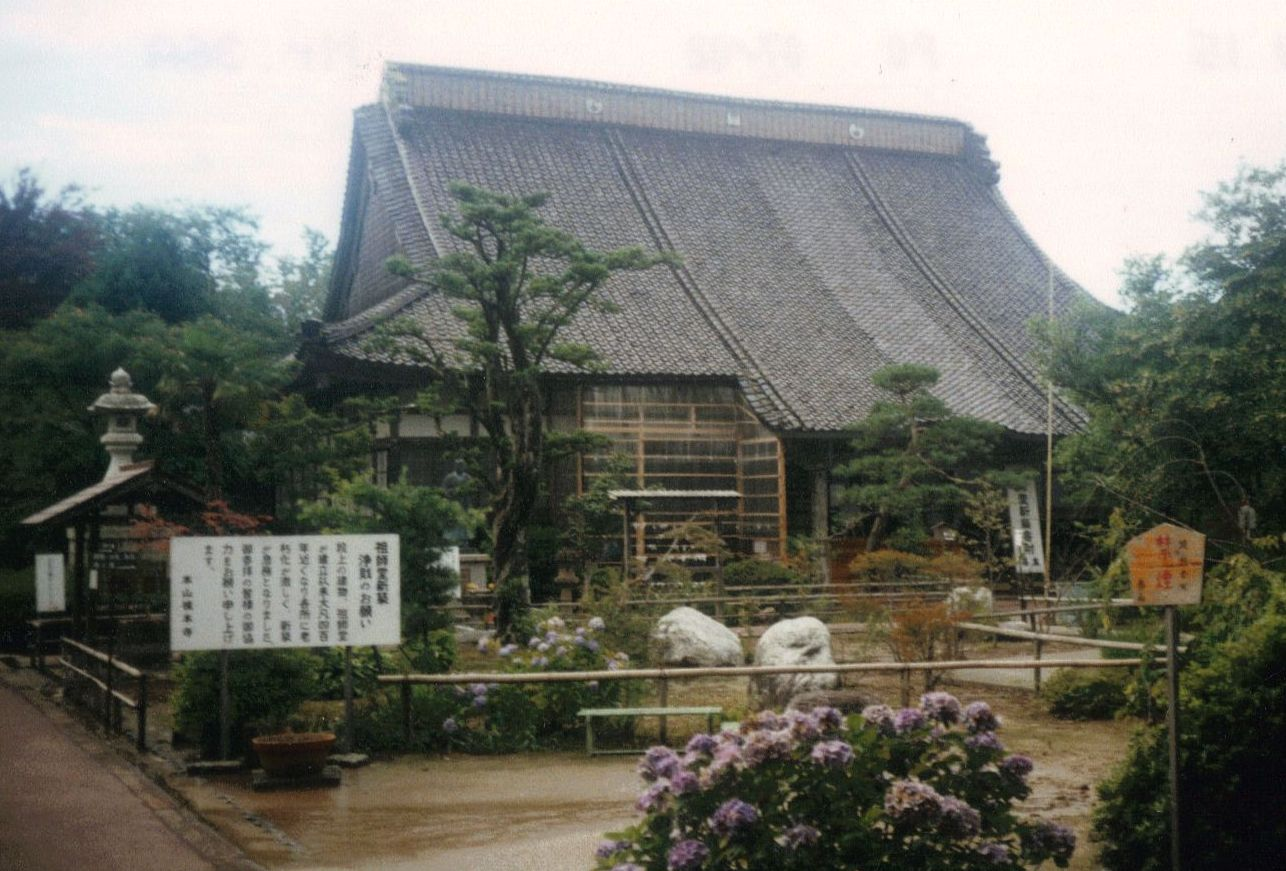 Konponji Temple, Sado Island, Niigata Prefecture, Japan